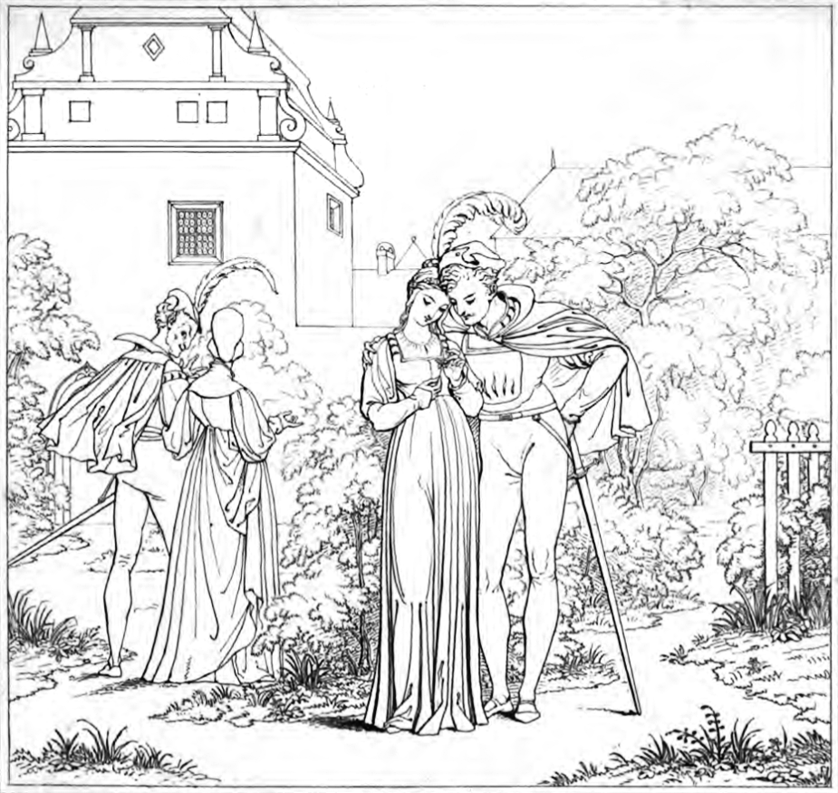 Plate 14: The Decision of the Flower. Engraved illustration from an early English translation of Goethe's Faust.